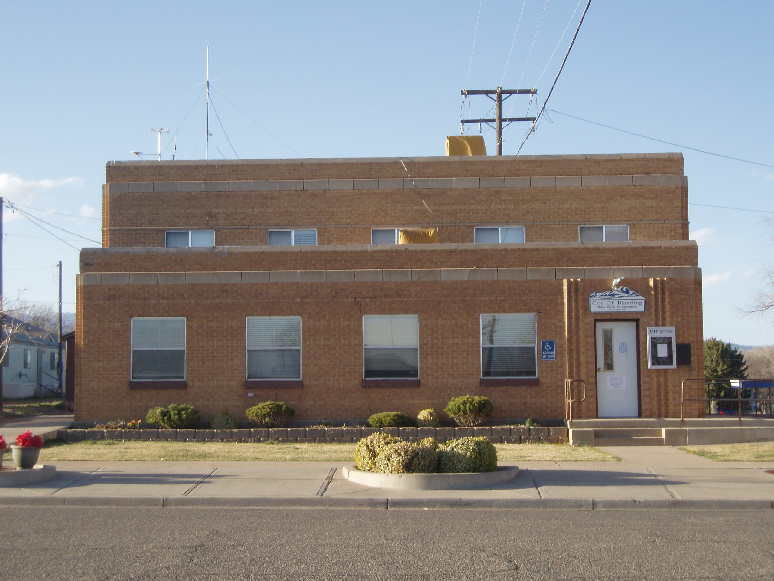 City office of Blanding, Utah, United States.